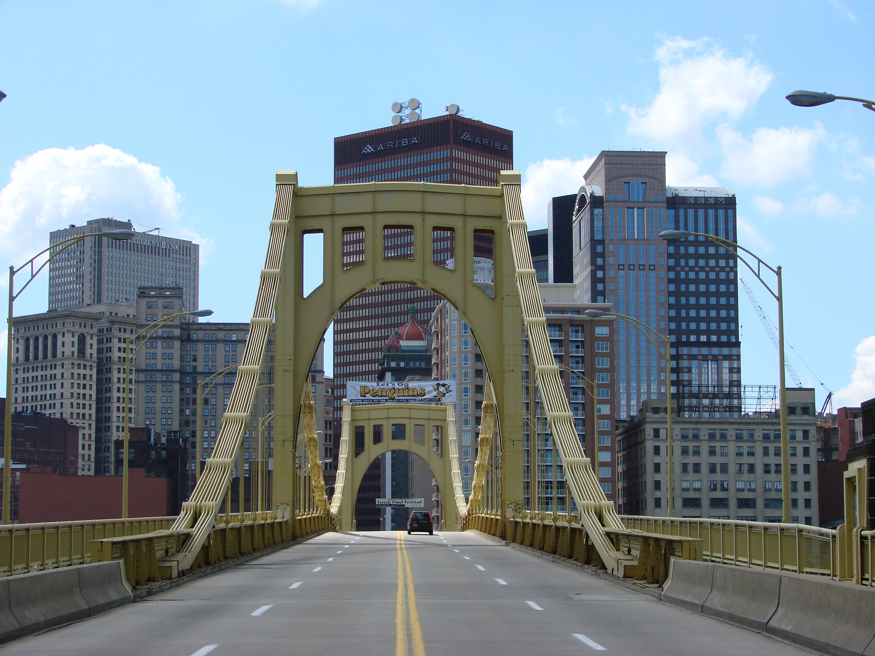 2008-05-24 Pittsburgh 052 Andy Warhol Bridge